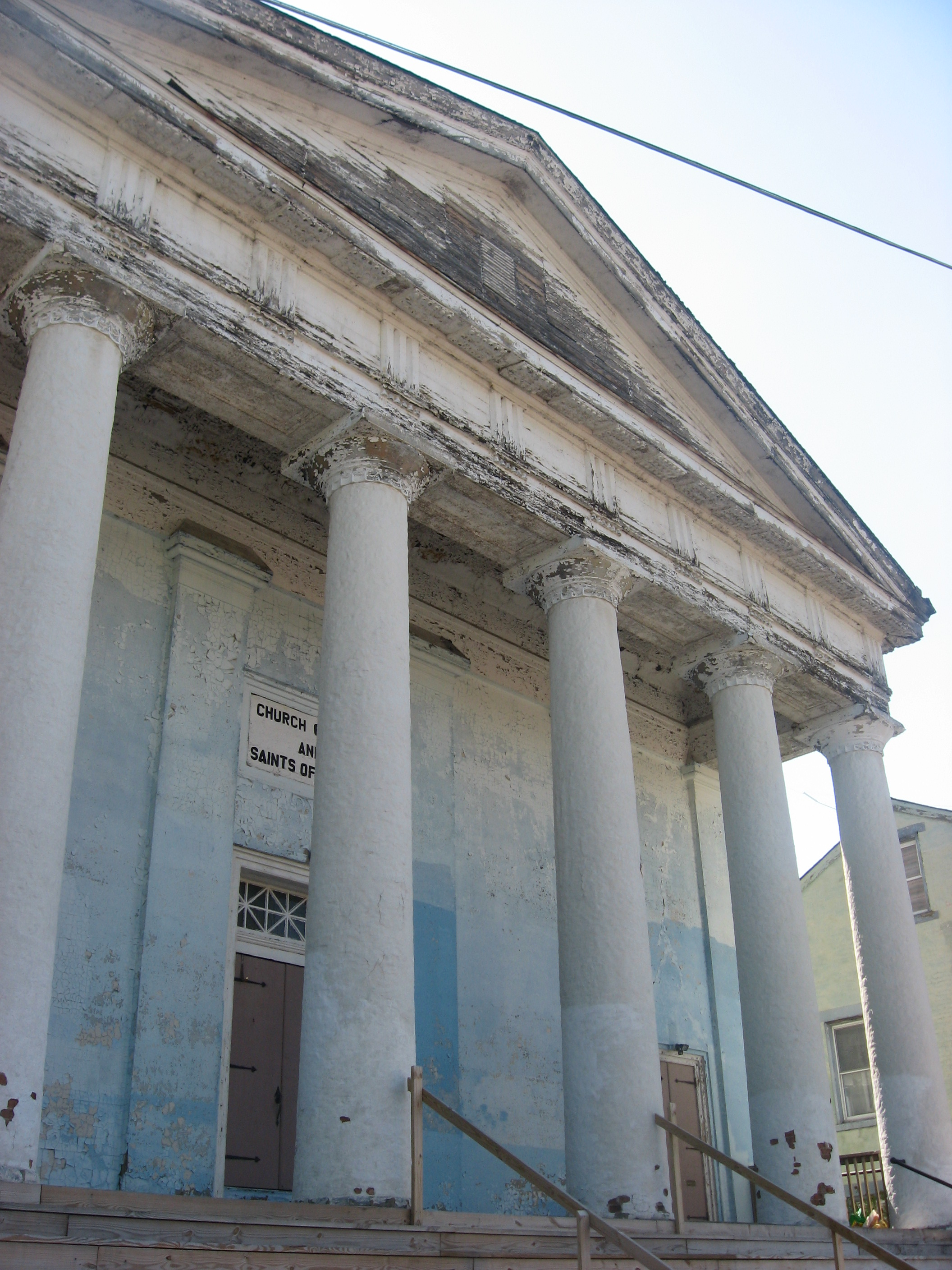 Front of the Church of God and Saints in Christ, a Black Hebrew Israelite church (part of a breakoff from the Church of God and Saints of Christ denomination), located on the southeastern corner of the junction of 12th and Byron Streets in Wheeling, West Virginia, United States. Built in 1837 as St. Matthew's Episcopal Church, it later was home to First Baptist Church before being occupied by the present owners. It is part of the Monroe Street East Historic District, a historic district that is listed on the National Register of Historic Places.